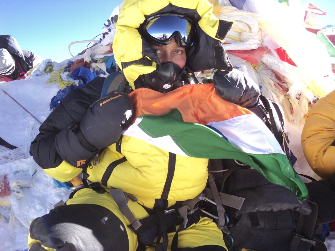 Chhanda Gayen's picture when summits at Mt. Everest(2013)